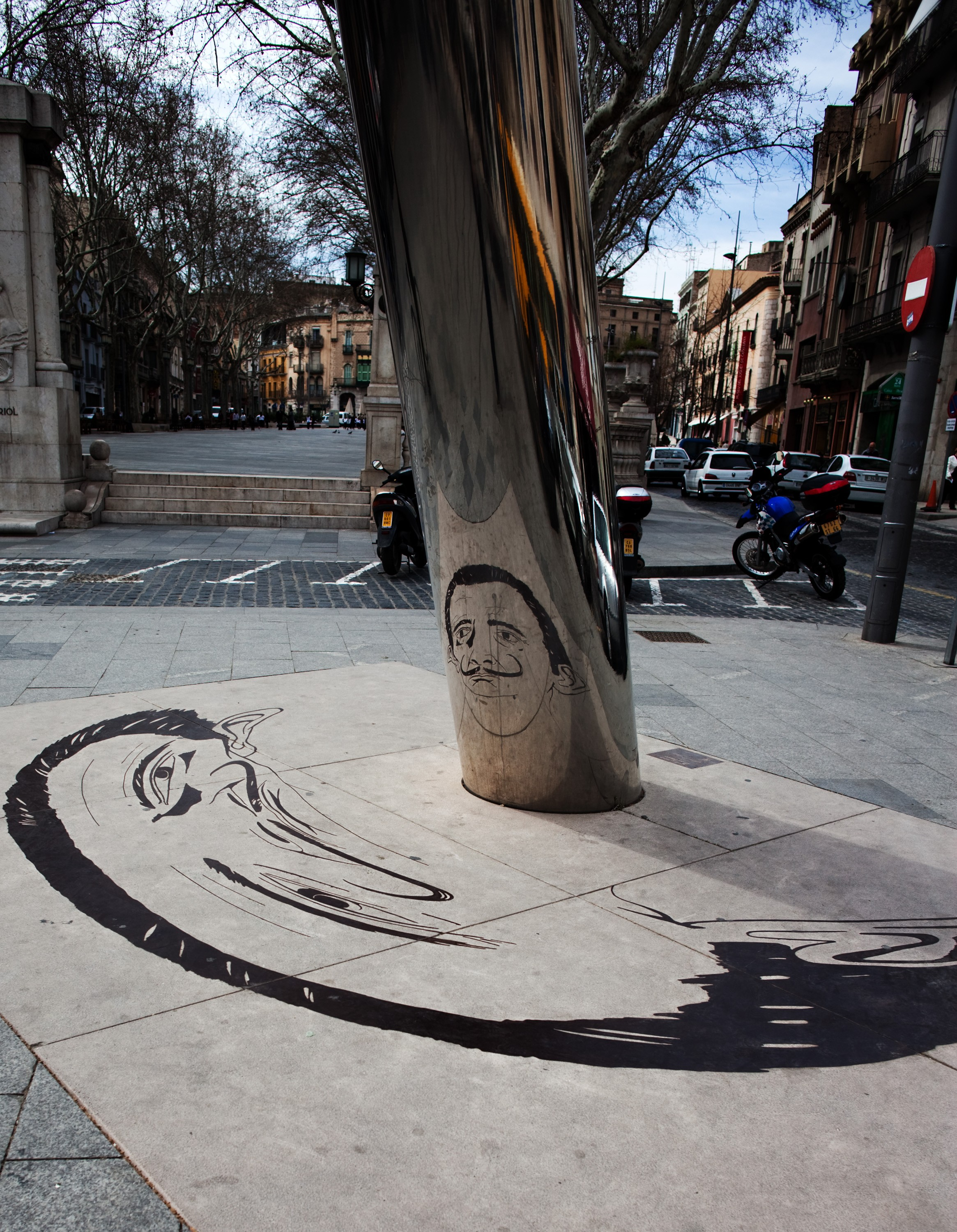 The Face of Dali, a surrealist tribute to Salvadore Dali in the town of Figueres, Catalonia.